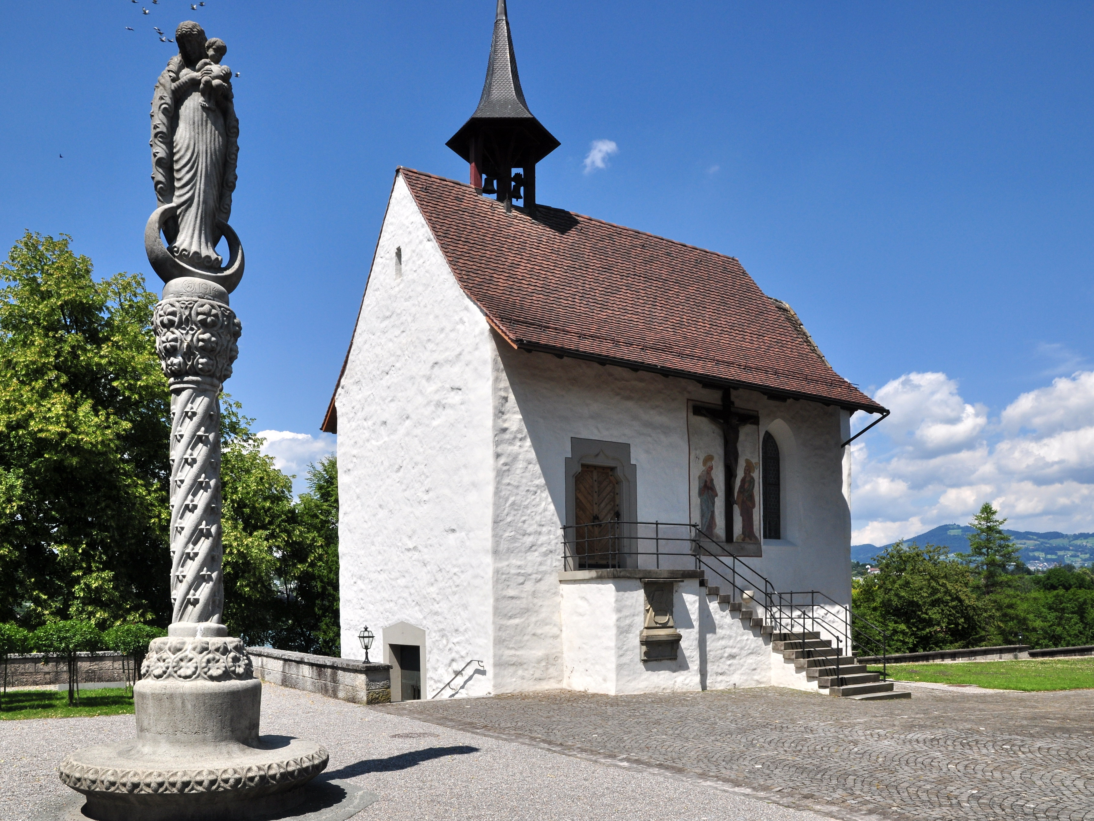 Rapperswil (SG) : Mariensäule and Liebfrauenkapelle (St. Mary's chapel) as seen from nearby Stadtpfarrkirche St. Johann (St. John's Church) (to the right) respectively towards the nearby castle.